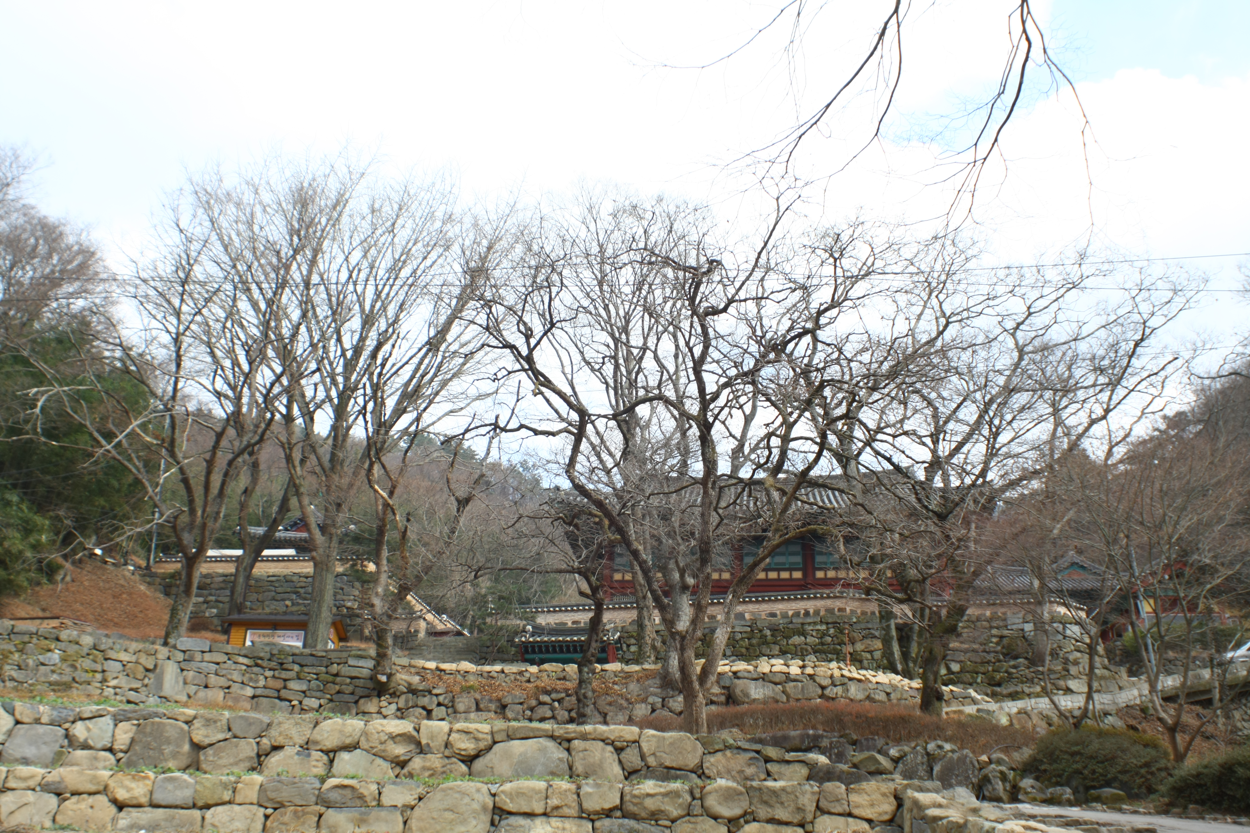 Jeungsimsa